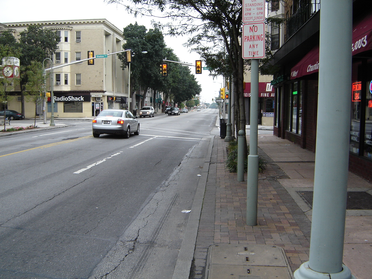 Downtown Ardmore, Pennsylvania, facing east on Lancaster Avenue/U.S. Route 30.